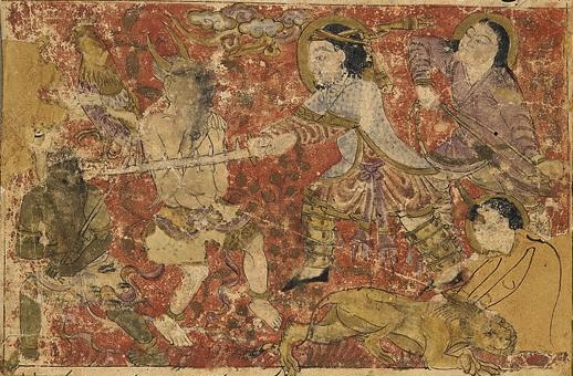 Folio from a Tarikhnama (Book of history) by Balami